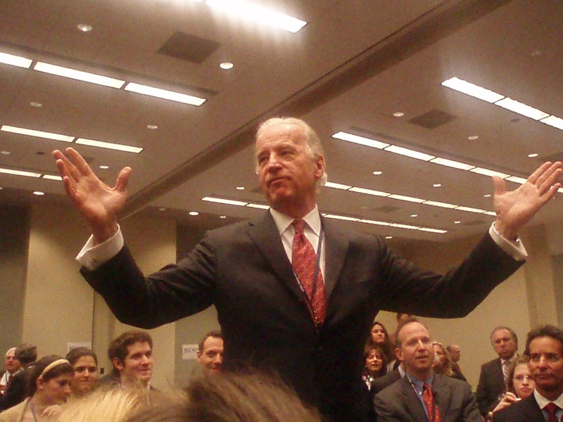 KInda of reminds me of moses, parting the ocean!!